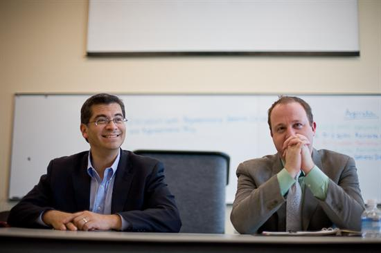 Representative Xavier Becerra, of California's 34th congressional district, and Representative Jared Polis, of Colorado's 2nd congressional district, at an immigration round table in Westminster, Colorado.